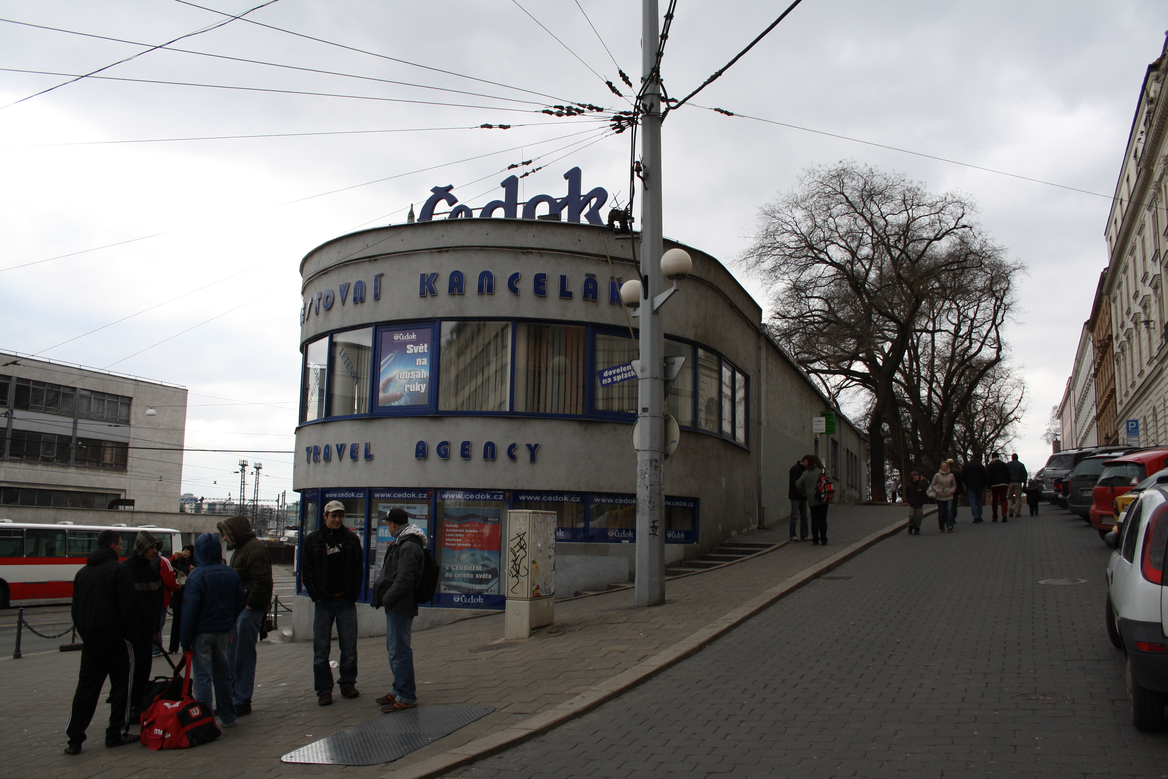 Building of ČEDOK in Brno, Czech Republic.